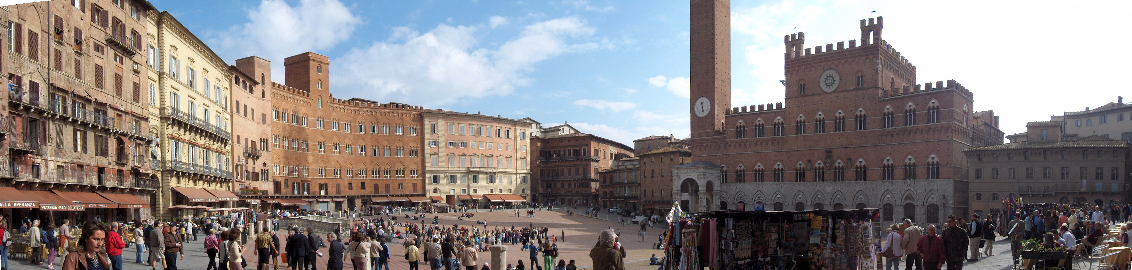 Piazza del Campo - panoramic view; Siena, Italy Own photo - photo made by Georges Jansoone on 11 October 2005